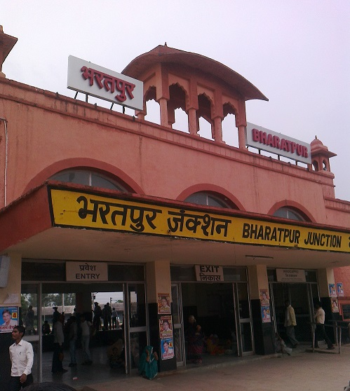 Bharatpur Jn Old View.